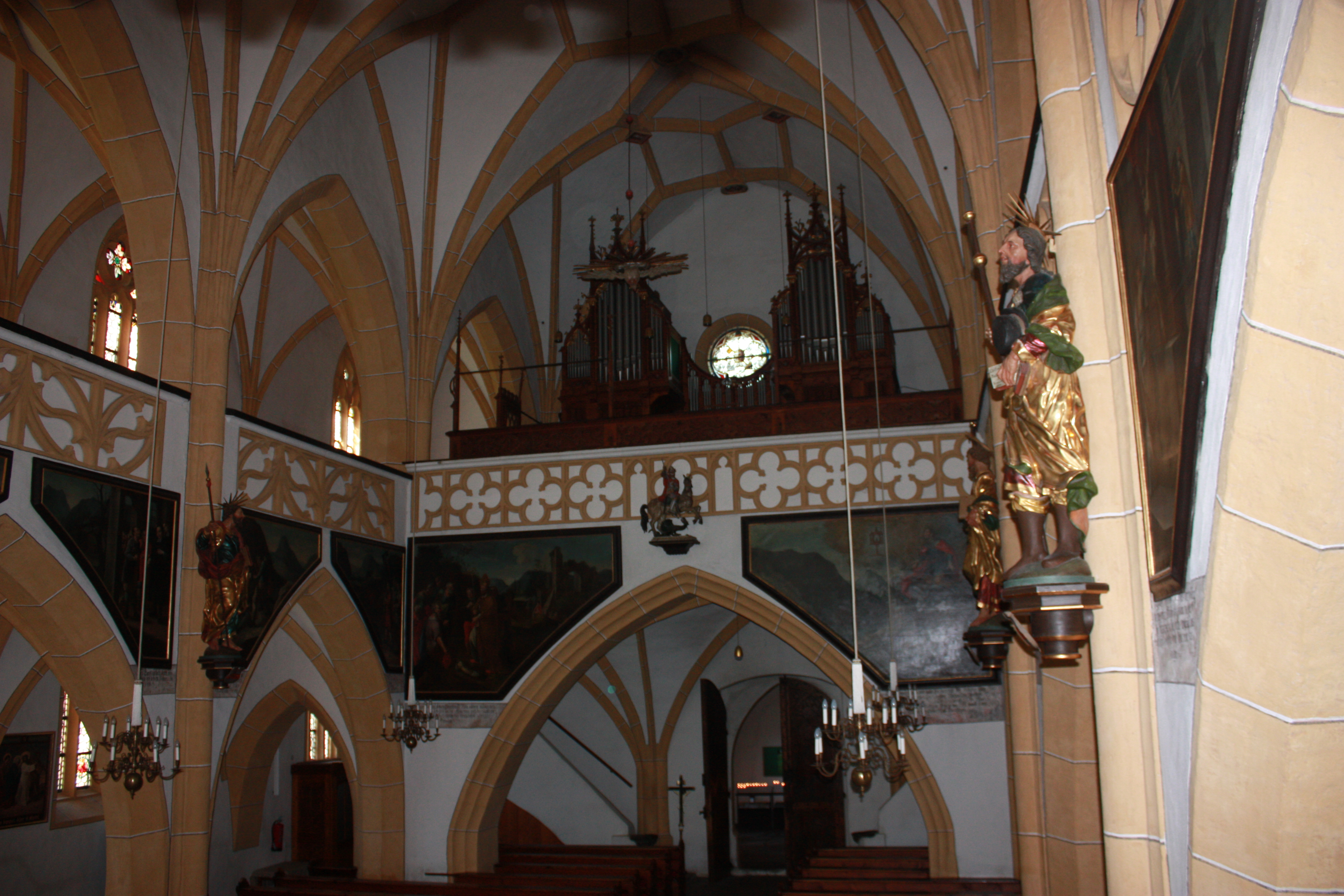 Parish church Saint Vinzenz - View to the organ loft Locality: Heiligenblut Community:Heiligenblut